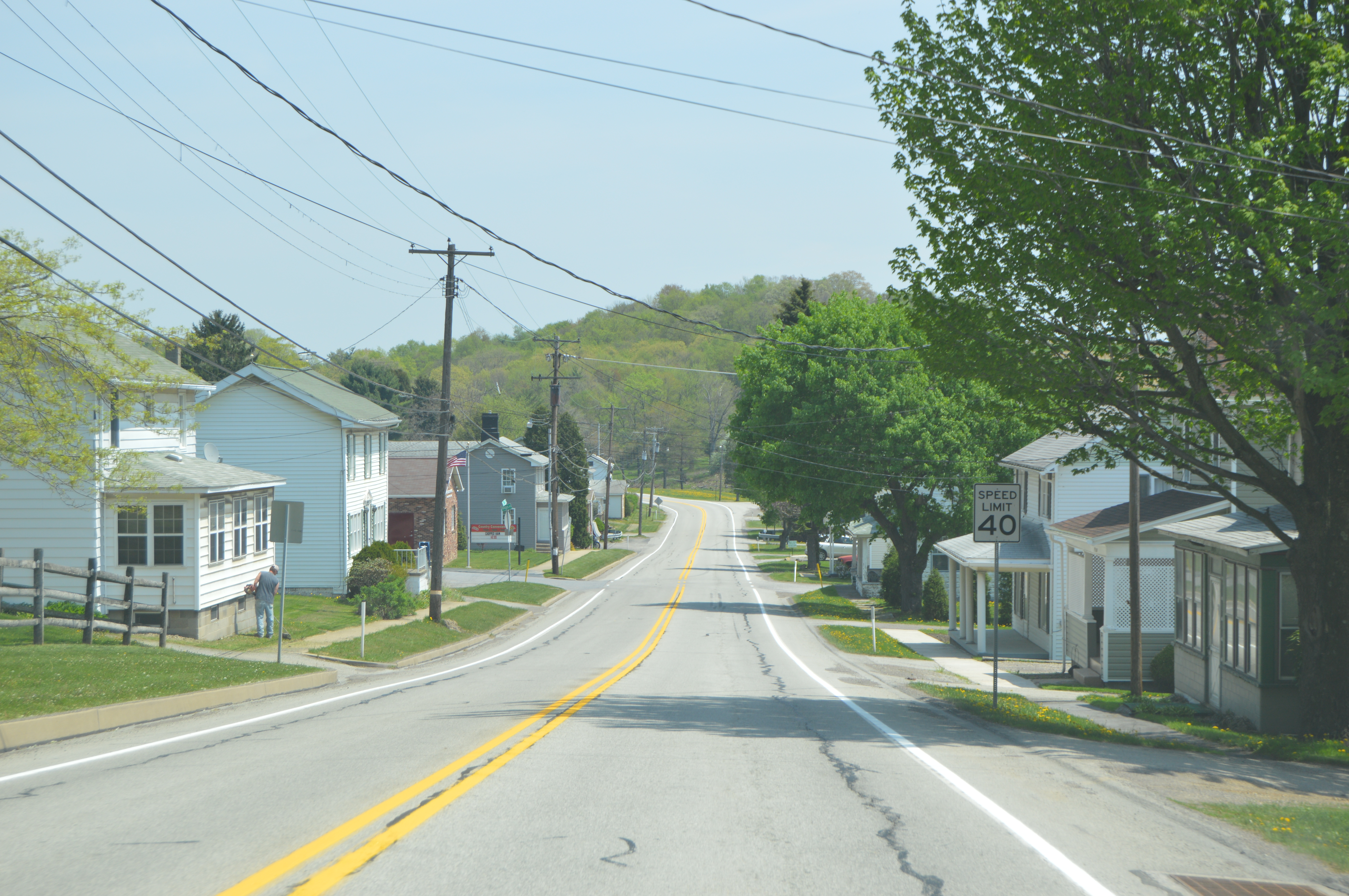 Looking eastward along Pennsylvania Route 286 at Hillsdale in Montgomery Township, Indiana County, Pennsylvania, United States.